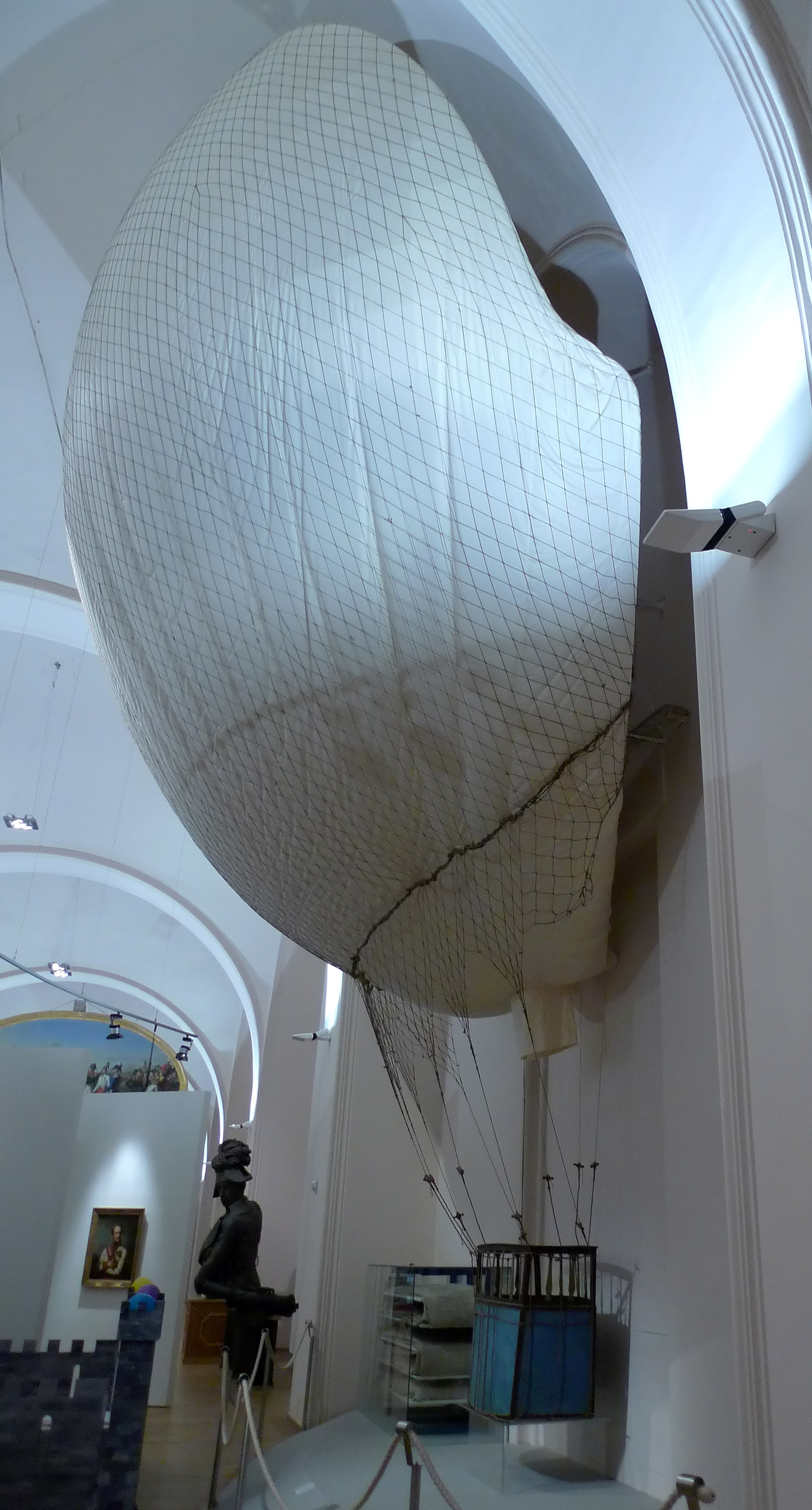 L'Intrépide ("The Intrepid") is a hydrogen balloon of the French Aerostatic Corps and the oldest preserved aircraft in Europe. Heeresgeschichtliches Museum Wien.